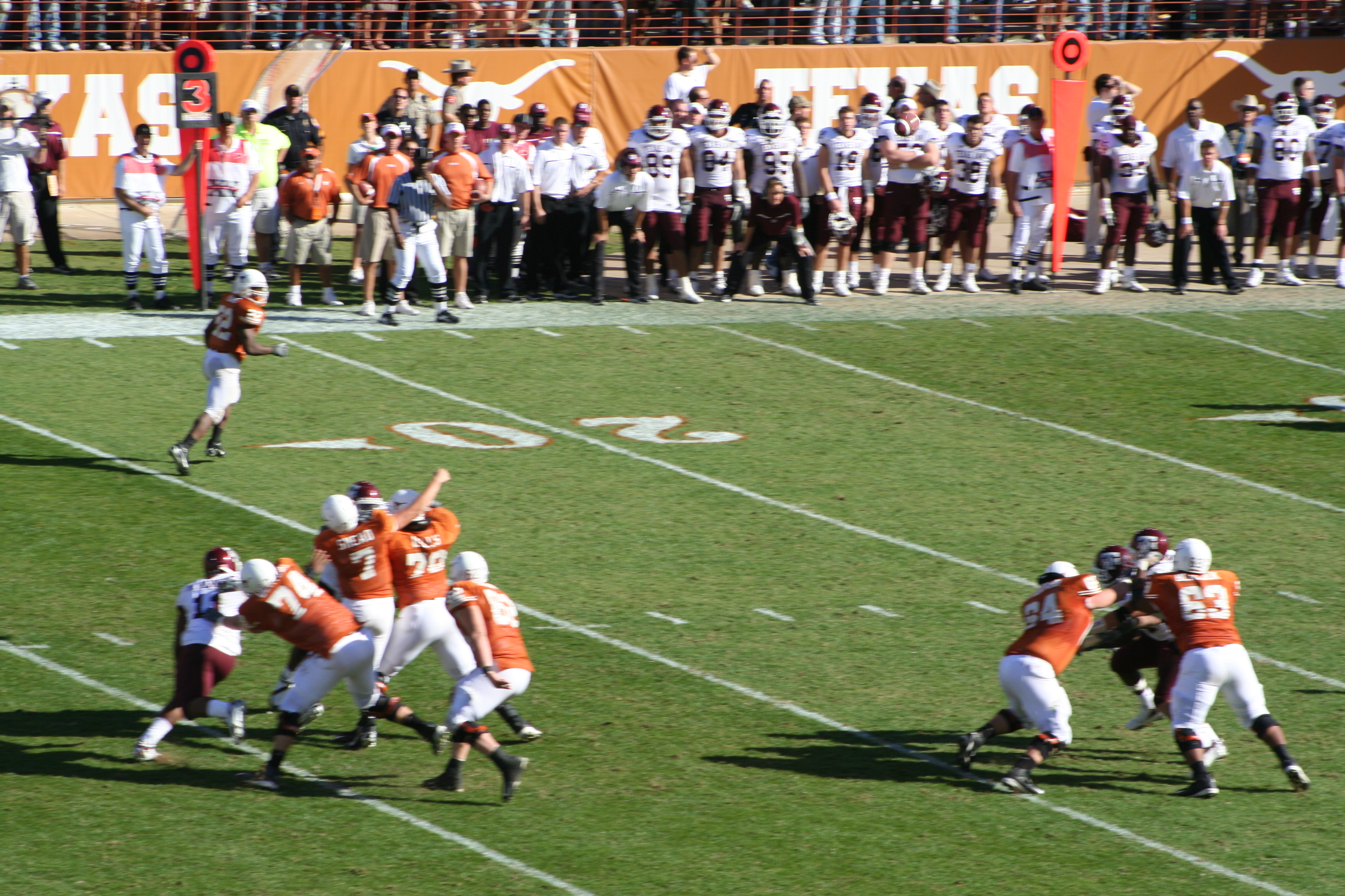 College football game betwen University of Texas at Austin and Texas A&M University - UT quarterback Jevan Snead just after throwing a ball that would get intercepted to seal the game in favor of Texas A&M.